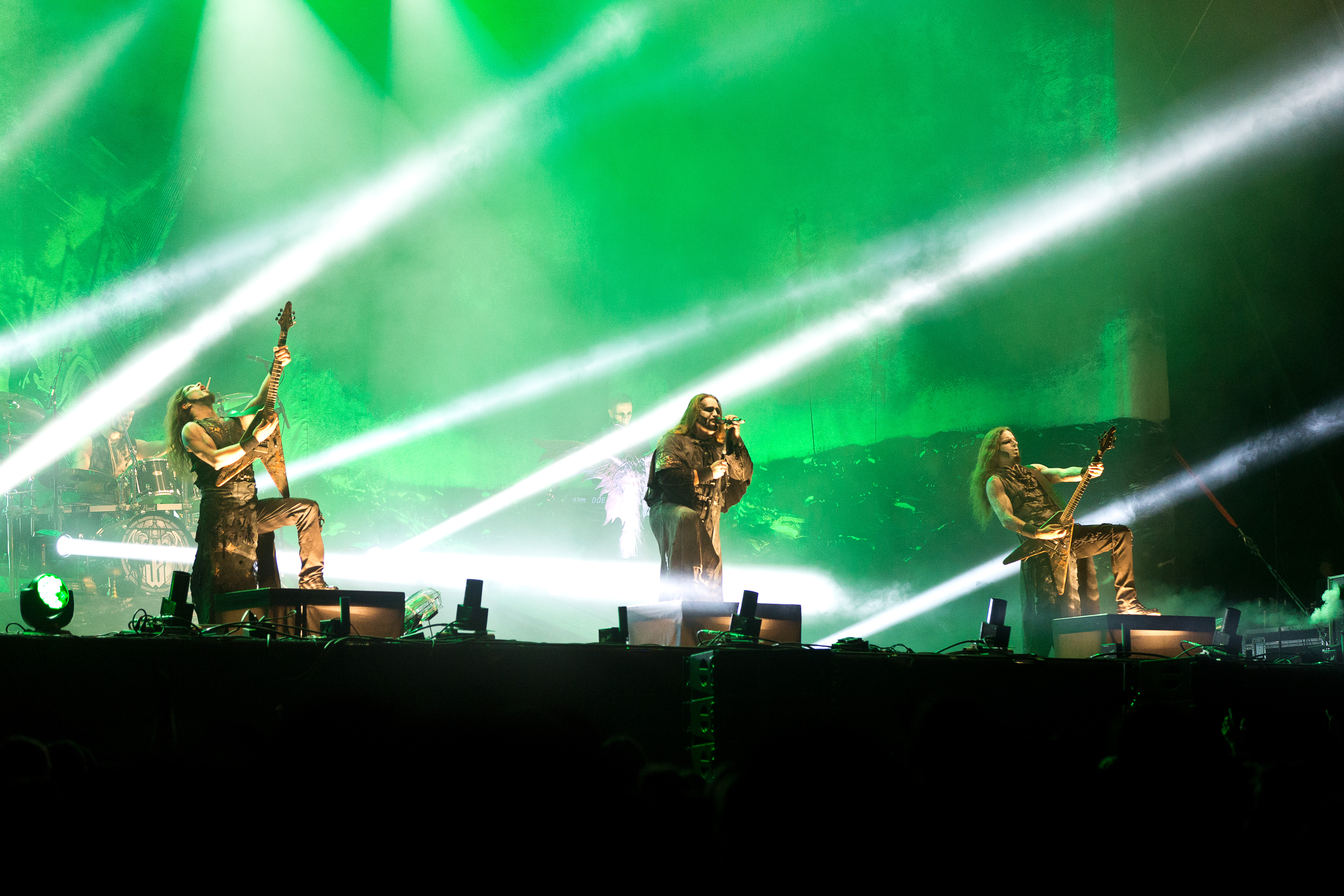 The German power metal band Powerwolf at the Rockharz Open Air 2016 in Ballenstedt/Germany.